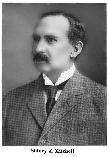 1922 Photo of Sidney Z Mitchell of Electric Bond and Share Group